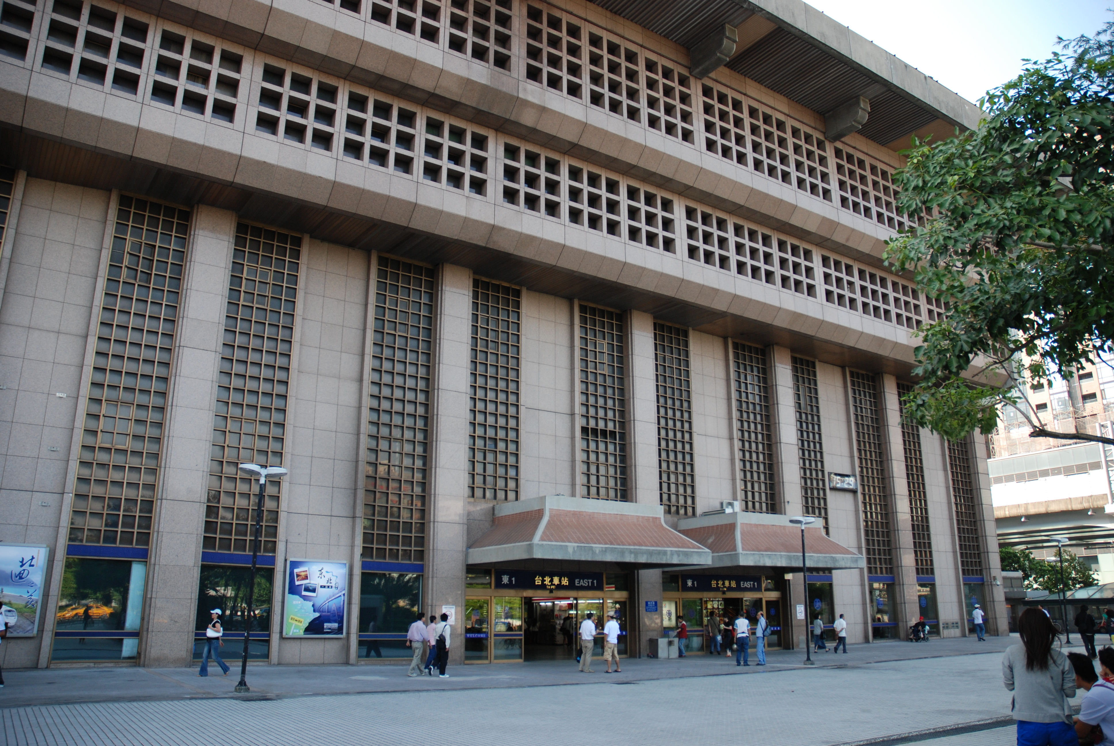 East 1 gate, TRA Taipei Station.